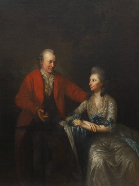 Carl Christoph von Hoffman and his second wife Friederike von Hoffmann née von Dieskau (180 x 136 cm)